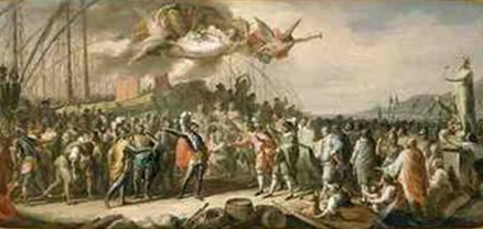 The triumph of Genoese admiral Lamba Doria in the Battle of Curzola - painting by Fedele Fischetti